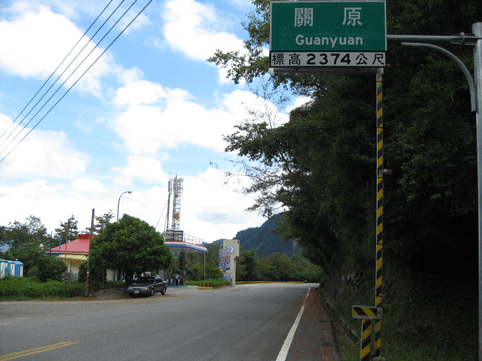 Guanyuan located at approximately 117km on the Central Cross-Island Highway in Hualien County.The photo left shows CPC Guanyuan gas station.